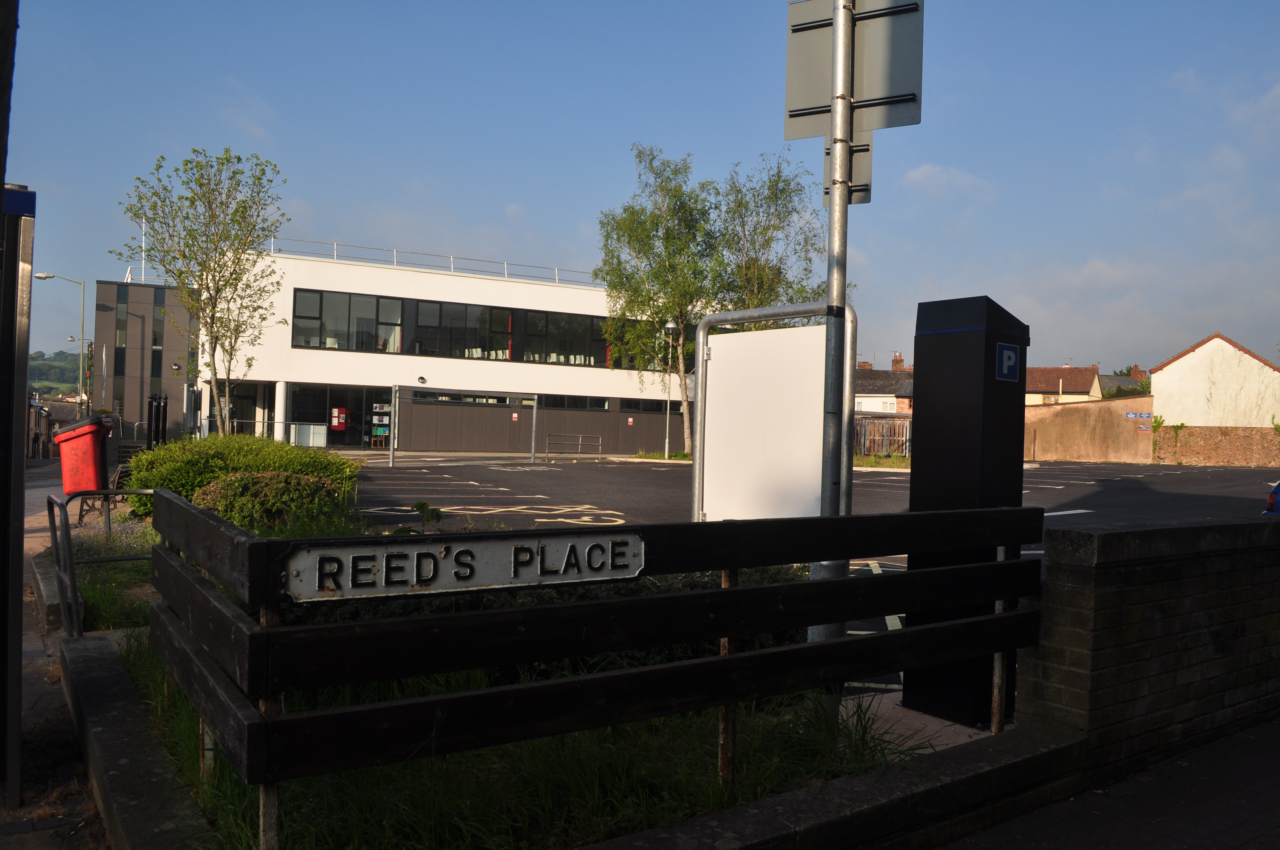 The Hayridge Centre in Cullompton which contains the library and a new car park are on the site of the former health centre and magistrates court.